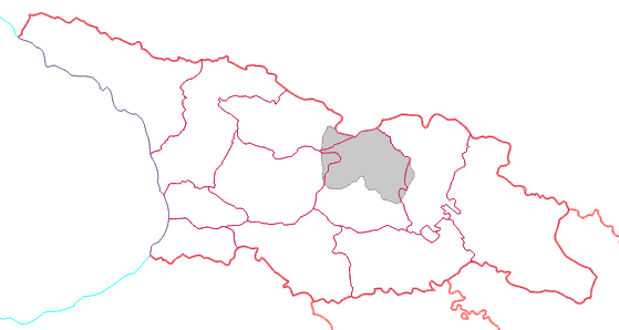 Map of South Ossetia Mapa de Osetia del Sur